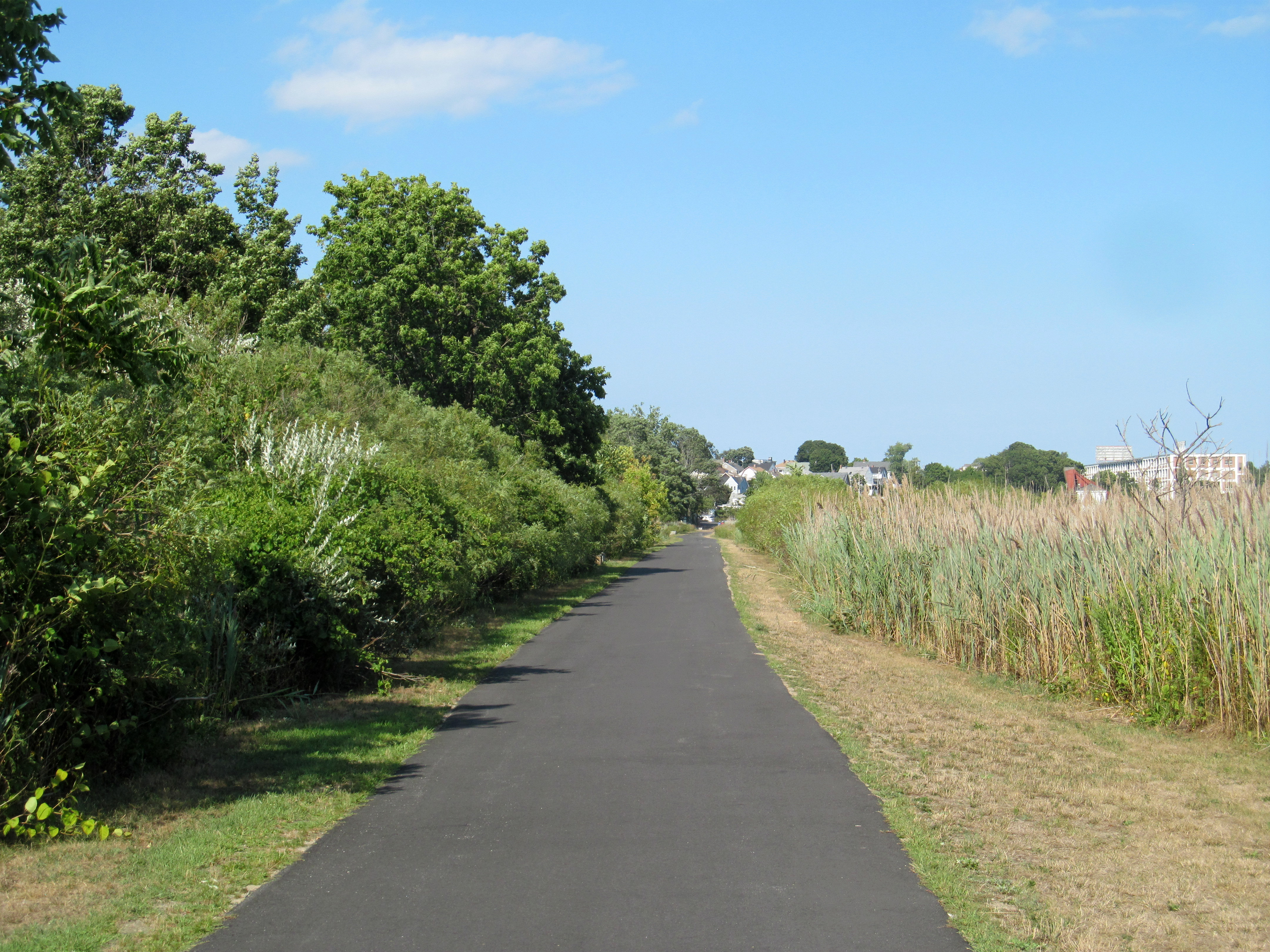 Neponset Trail east of the Shawmut Junction underpass in August 2016